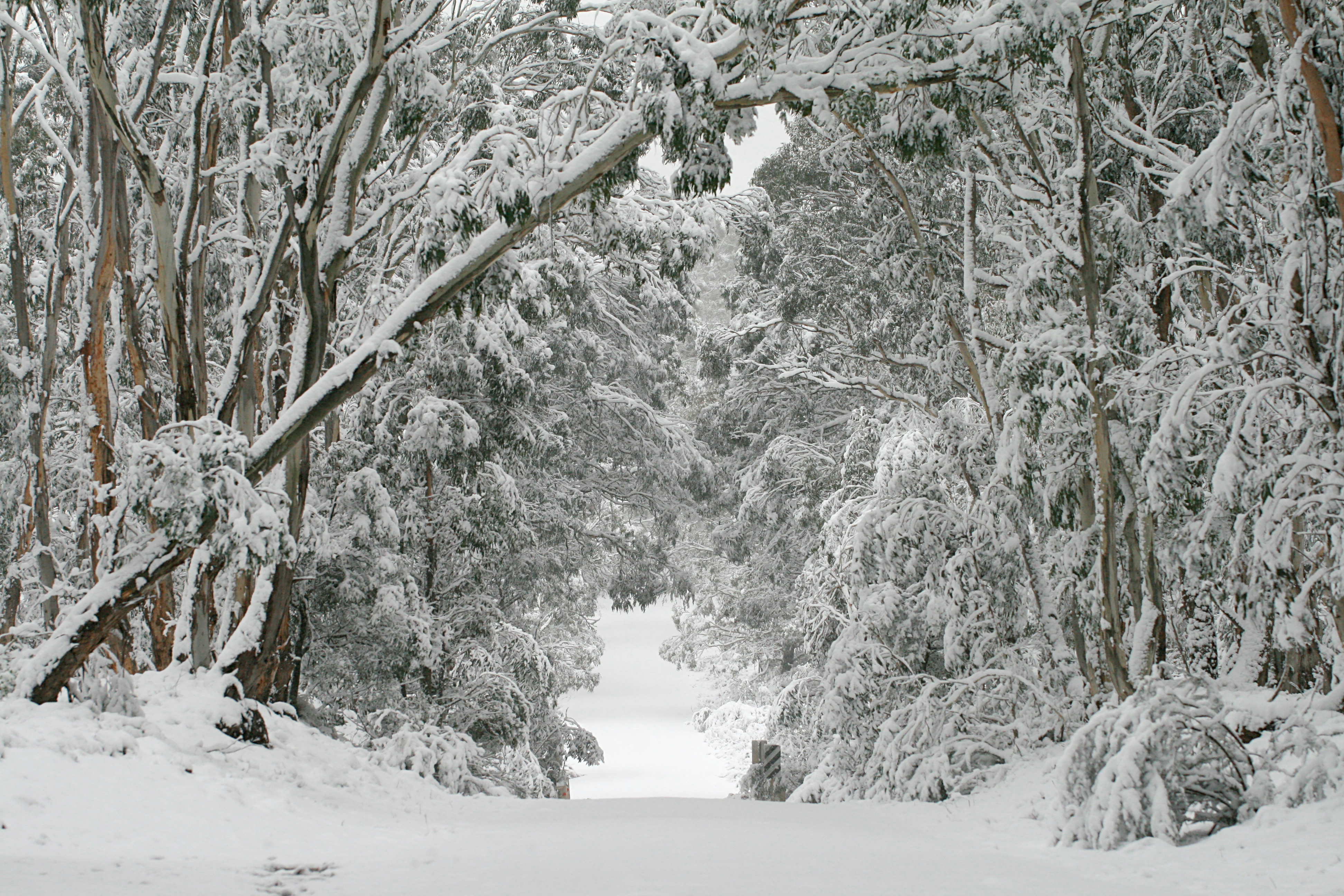 Kanangra road at the Boyd River Campground, Kanangra-Boyd National Park, NSW, Australia.